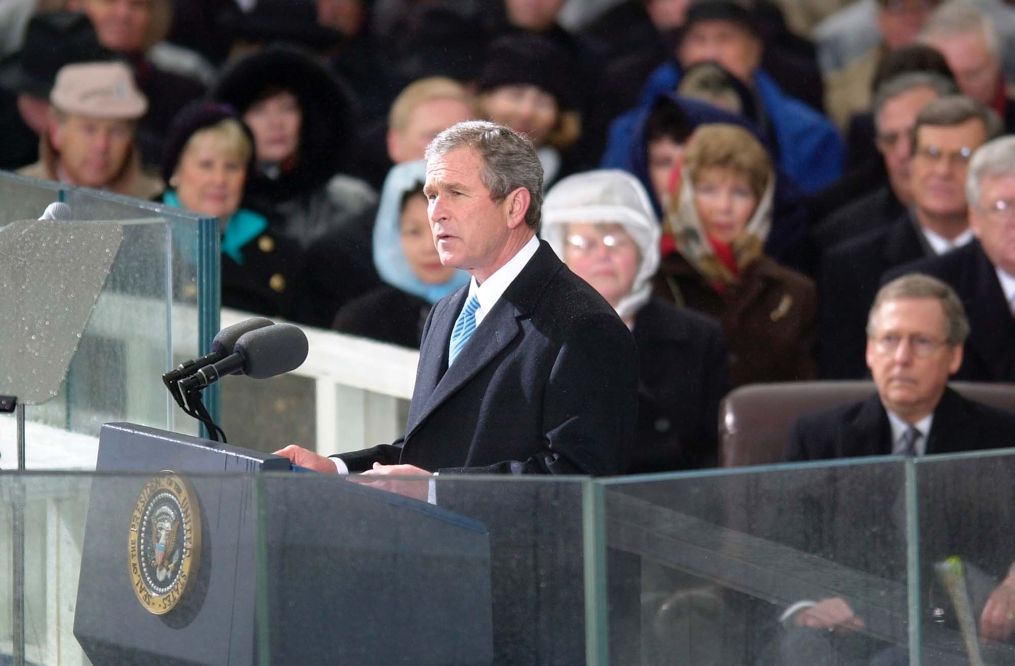 President George W. Bush delivers his Inaugural Address following his swearing-in ceremony in Washington, D.C., Jan. 20, 2001.